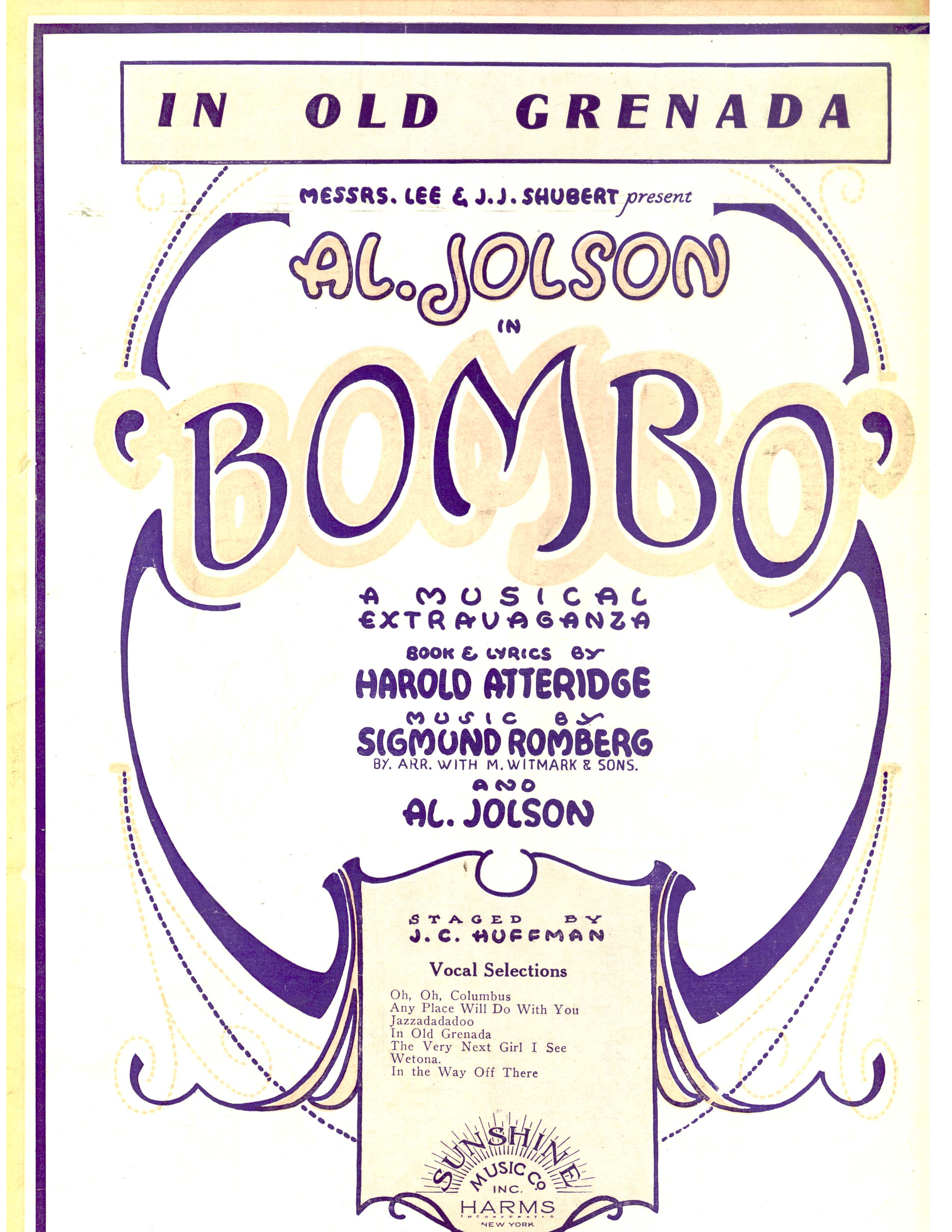 Cover of sheet music for "In Old Grenada" from the musical Bombo